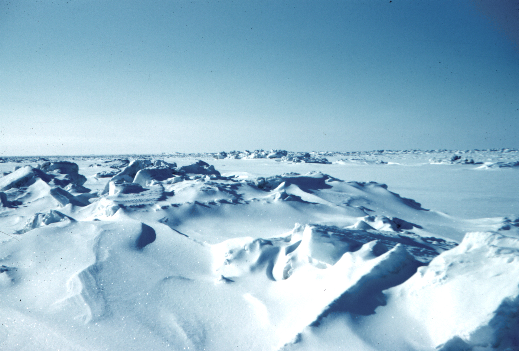 Ice ridges in the Beaufort Sea off the northern coast of Alaska.